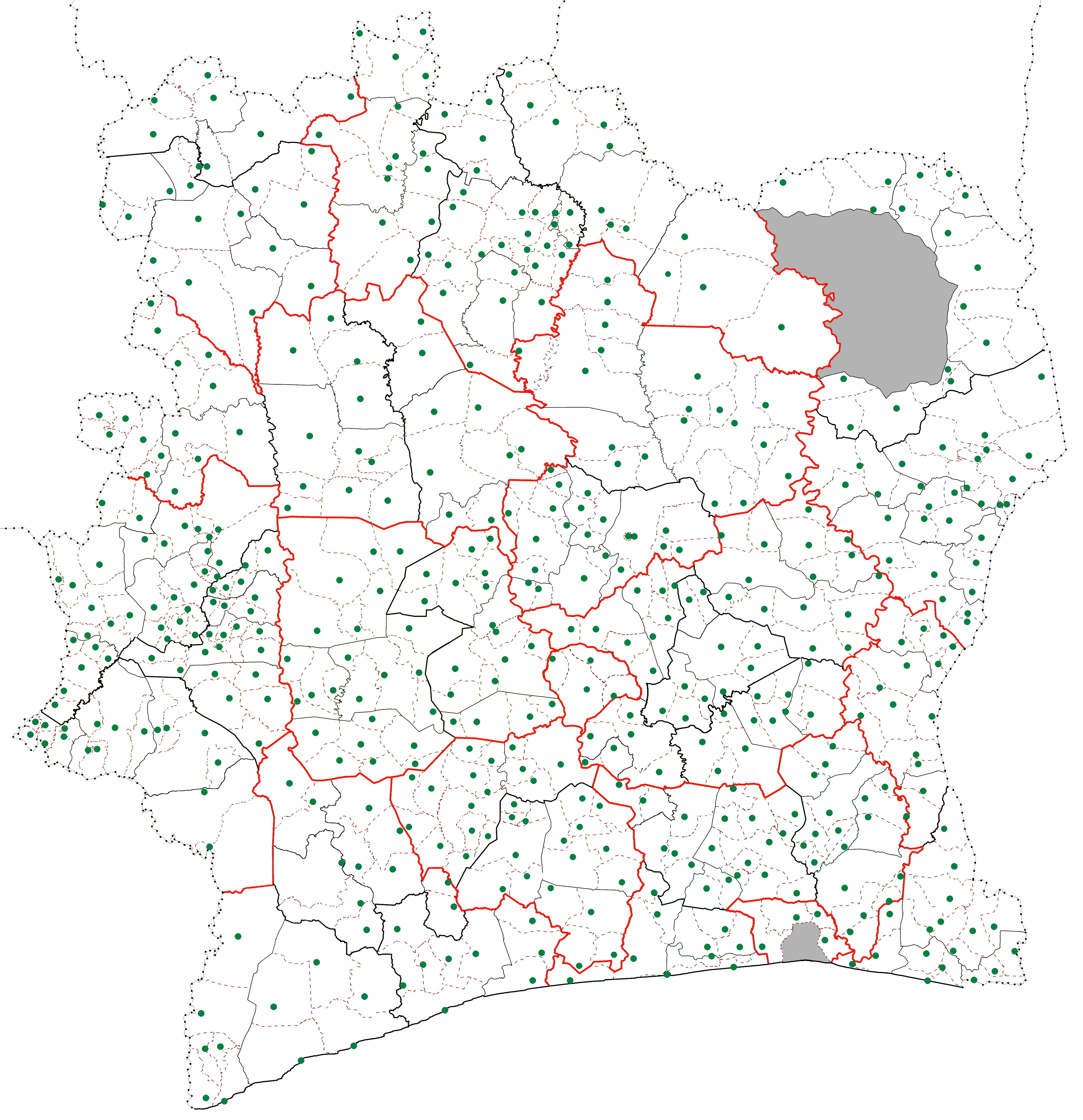 Map of the sub-prefectures of Côte d'Ivoire. The dotted lines are the boundaries of the sub-prefectures and the green dot indicates the location of the settlement that is the seat of the sub-prefecture. District borders are in red; region borders are in bolded black; department boundaries are solid lines. Grey zones are areas of the country not governed by sub-prefectures (Abidjan city proper (south) and the portion of Comoé National Park in Zanzan District (north)).